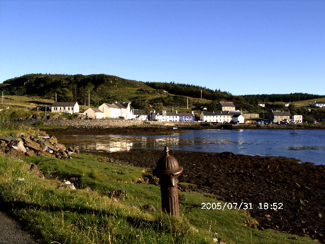 Bunessan village viewed from Lower Ardtun